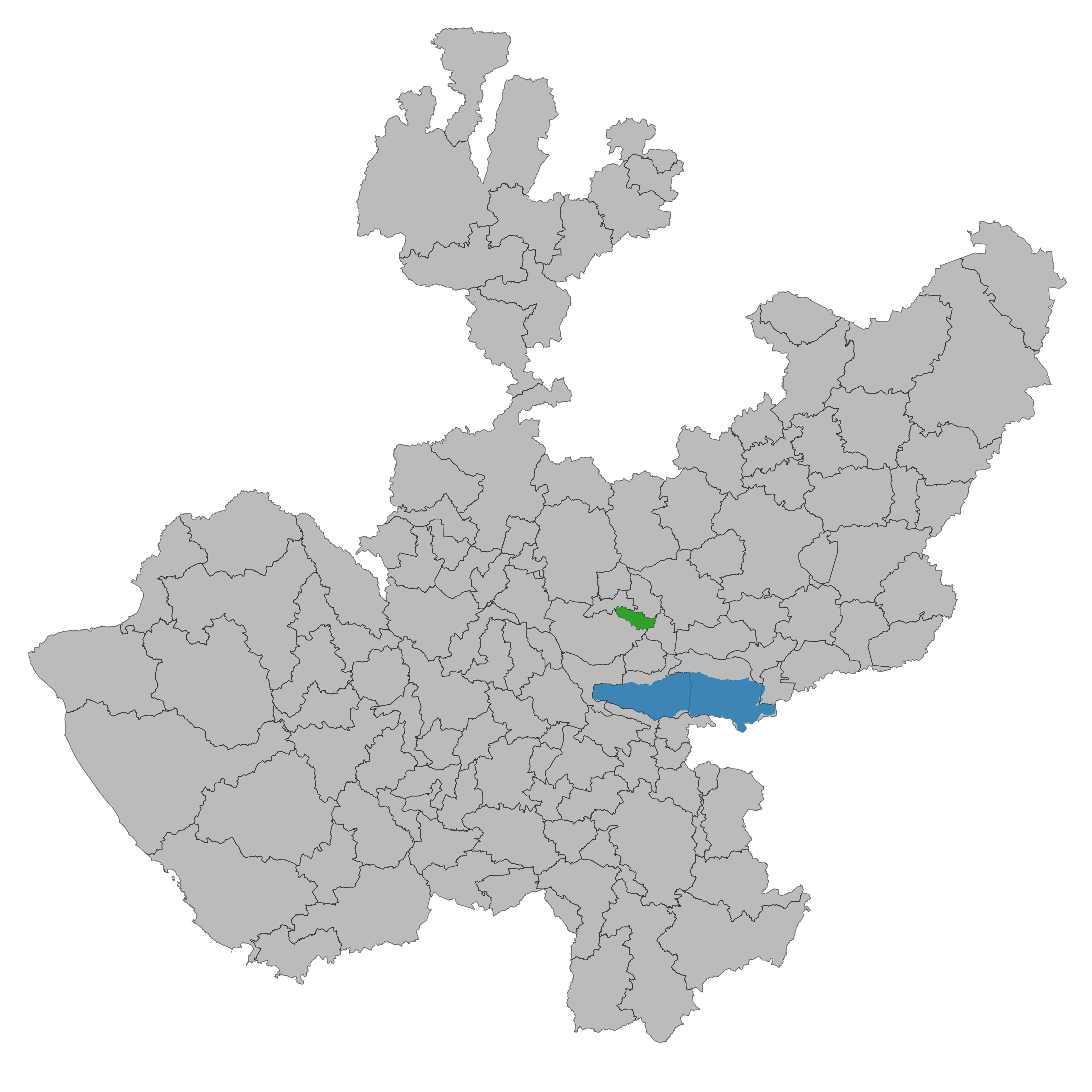 Municipality of Jalisco. Prepared with the software QGIS version 2.8.2 Wien & with information of SCINCE 2010 version 05/2013